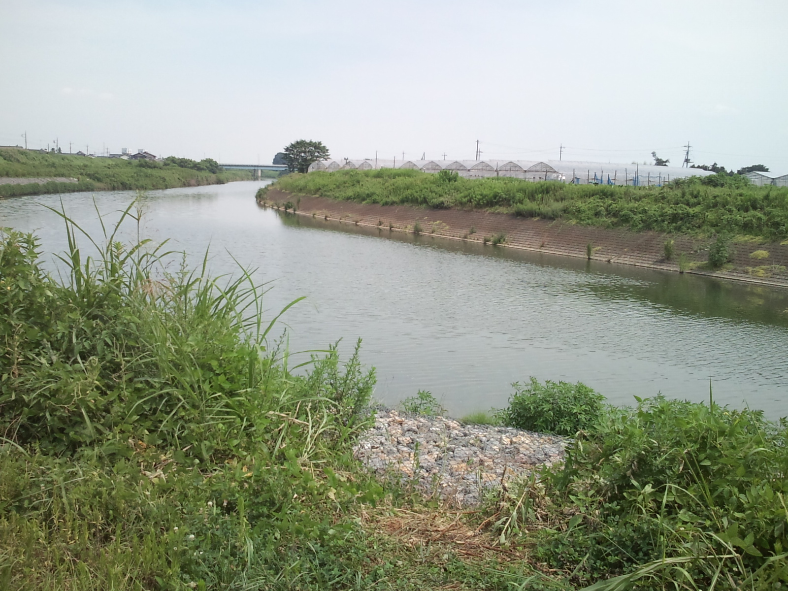 Yaba River(Ashikaga,Tochigi)